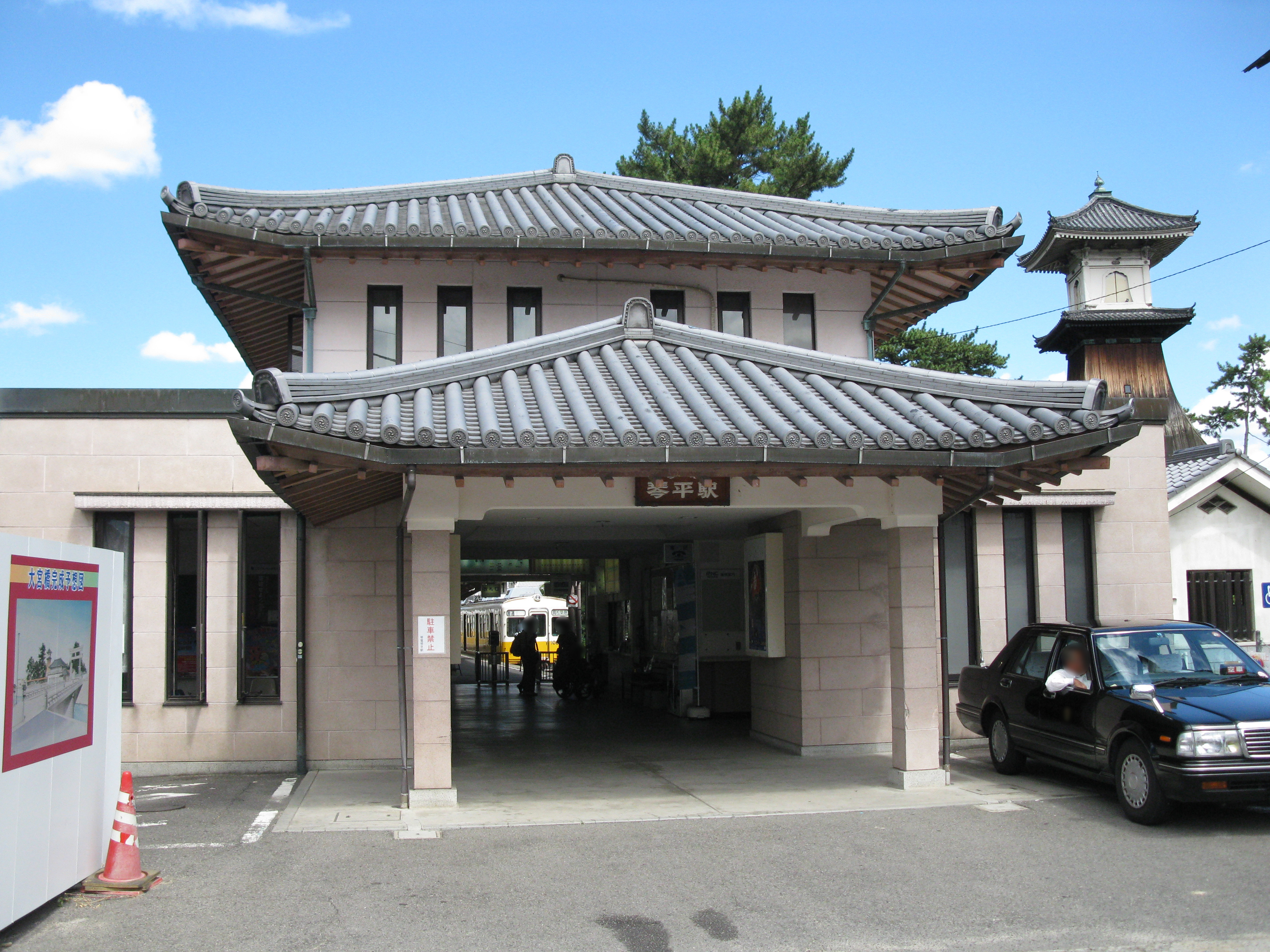 Kotoden-Kotohira Station building (Takamatsu-Kotohira Electric Railroad(Kotoden) Kotohira Line)